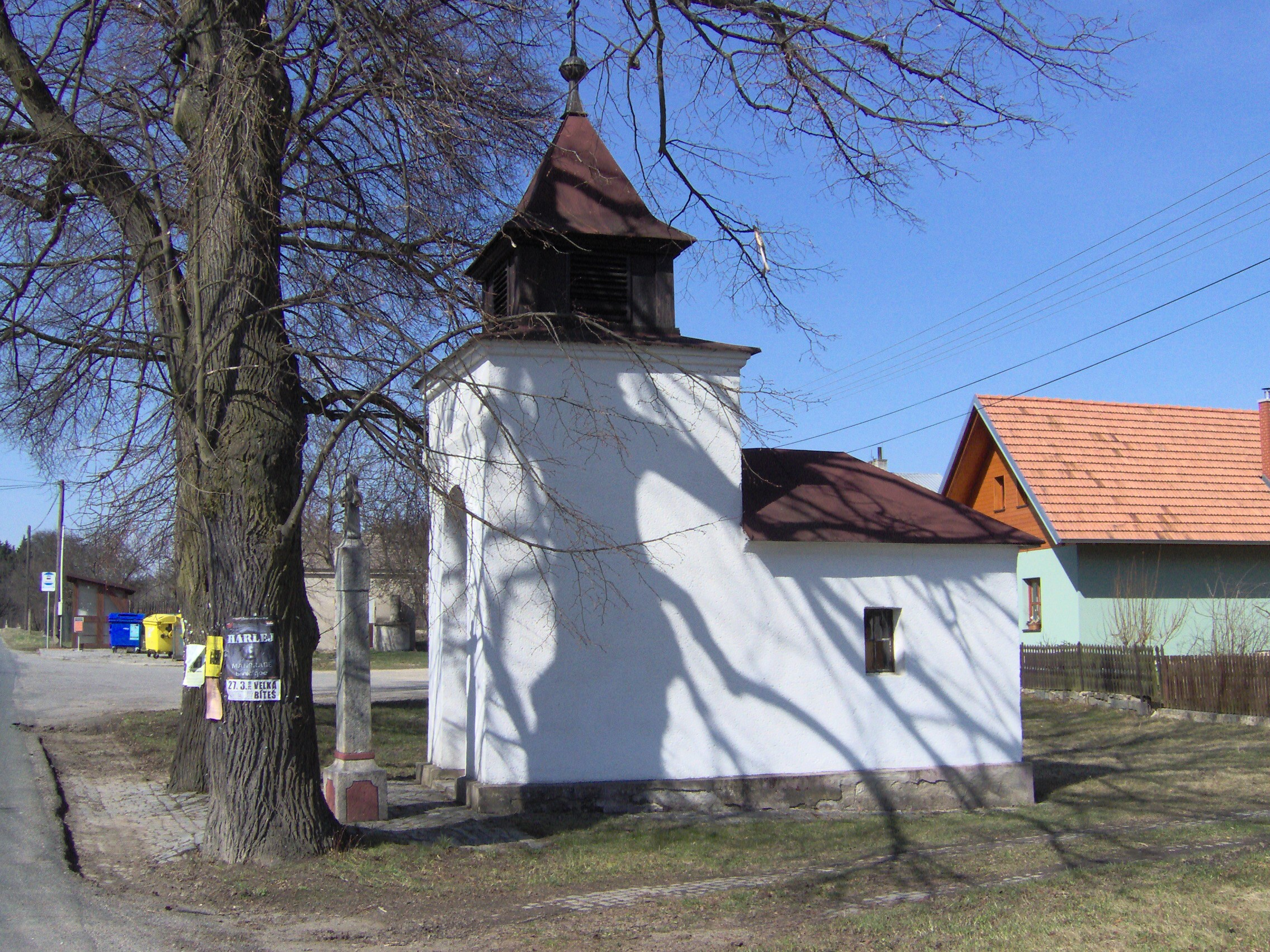 Ludvíkov village, Žďár nad Sázavou District, Czech Republic